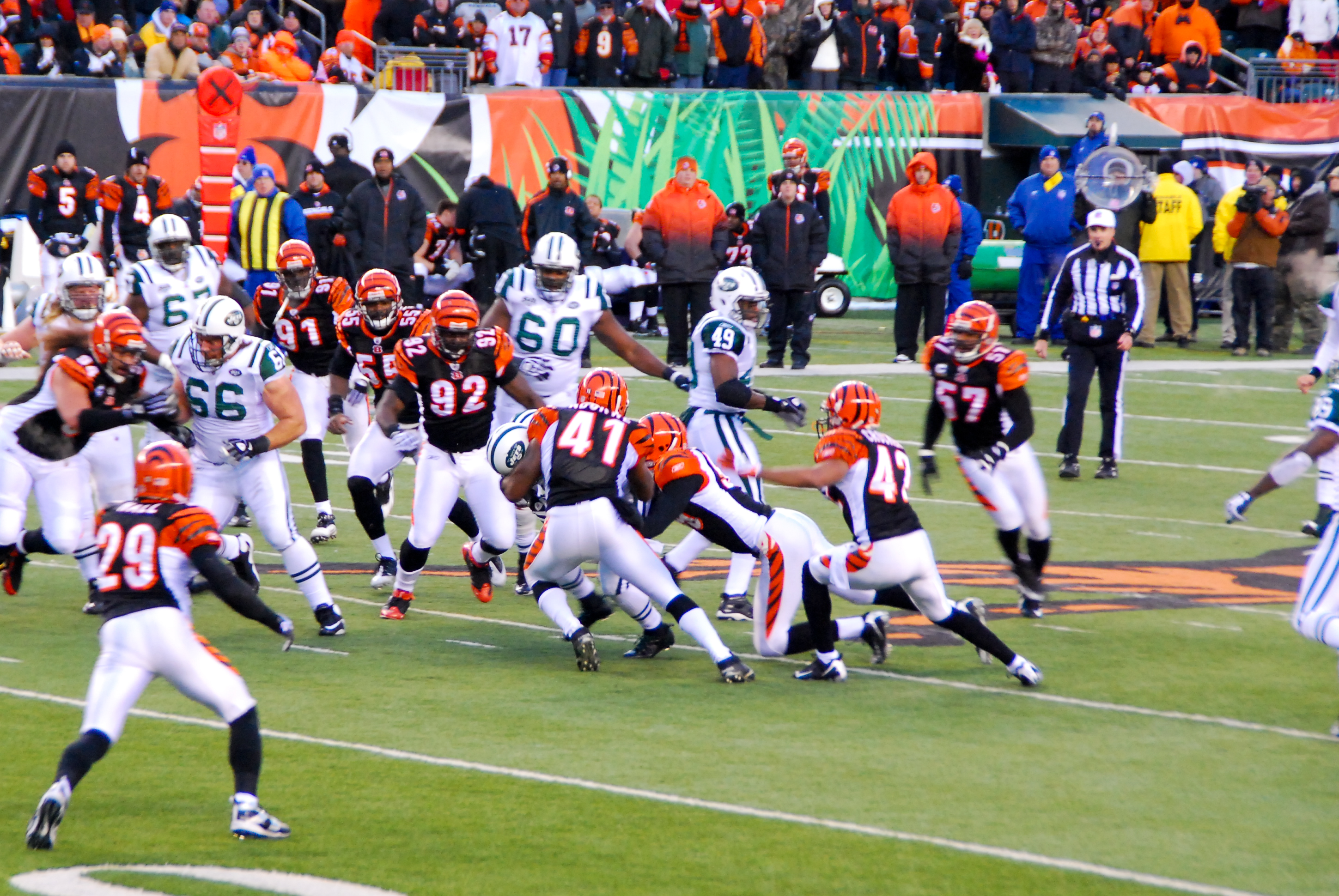 Bengals defensive line players play against the New York Jets offense in their Wild Card playoff game after the 2009 season (Jan. 9, 2010) at Paul Brown Stadium, Cincinnati.